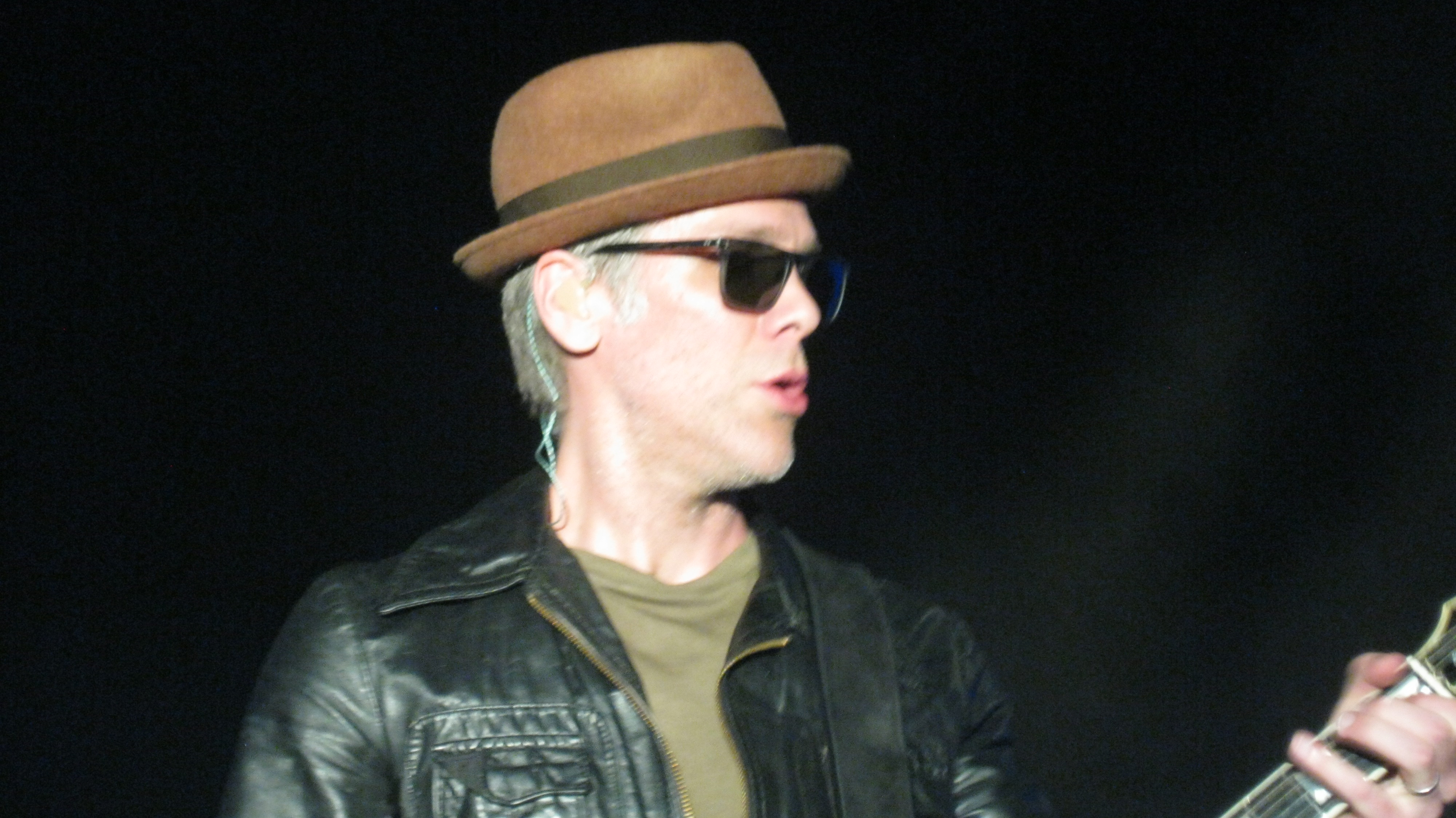 Took at Matchbox Twenty concert at Las Vegas (The Venetian) - IBM Impact 2013-04-30.